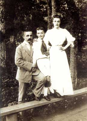 Vasily Rukavishnikov. Uncle Vladimir Nabokov